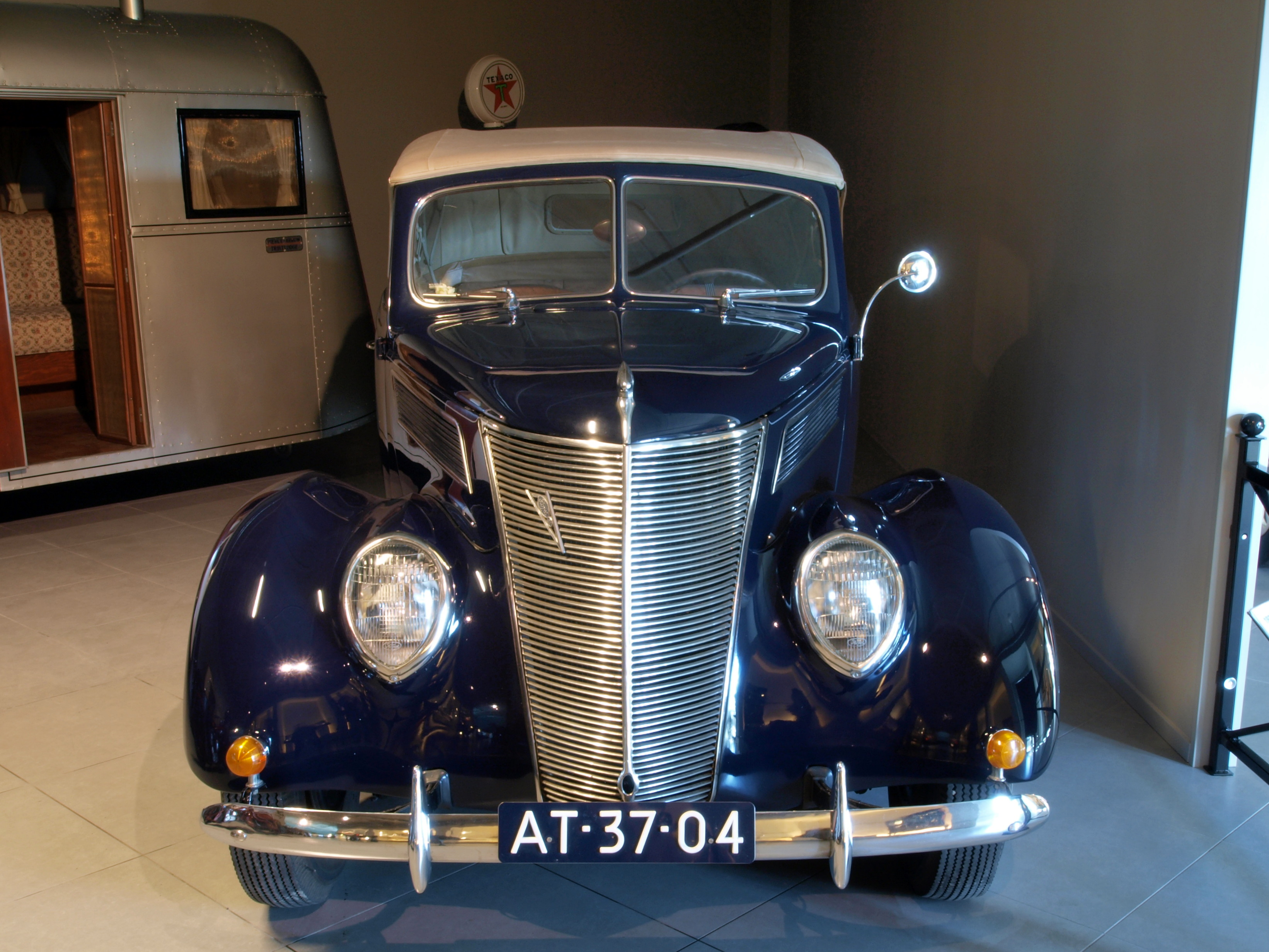 Photographed at the Louwman museum / Louwman Collection, The Netherlands.